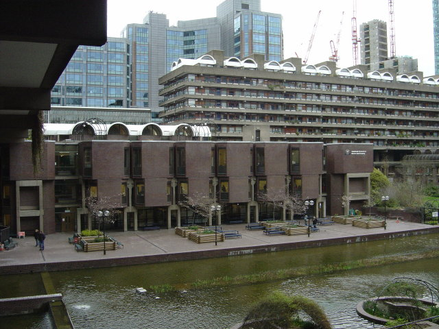 Guildhall School of Music and Drama This sits in the heart of the Barbican development, alongside the Barbican Arts Centre. Behind are the flats of Speed House